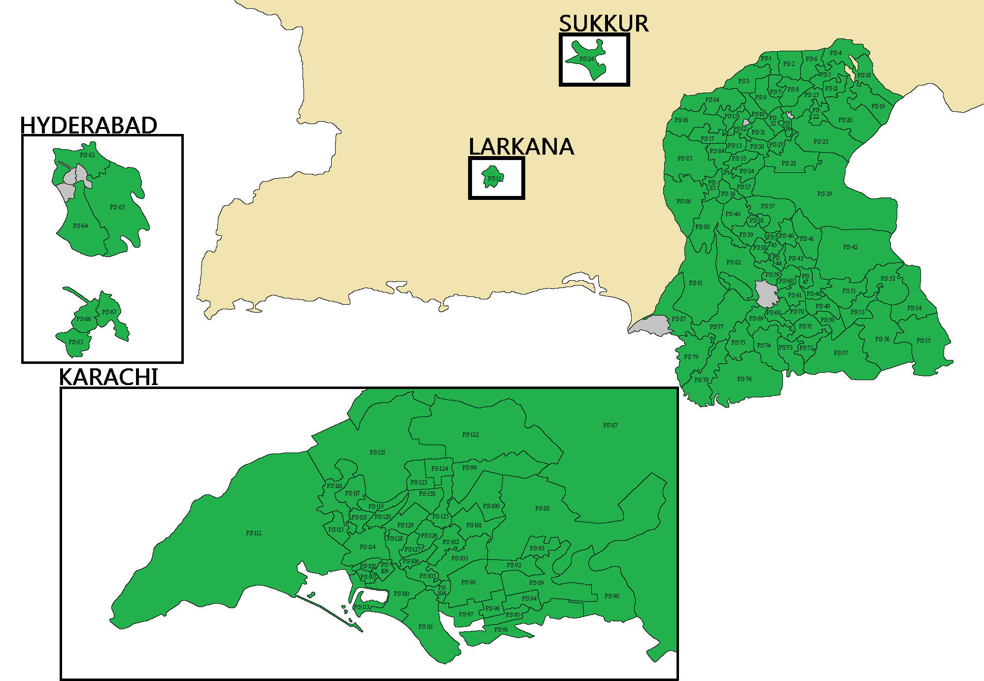 Map of Sindh Showing Assembly Constituency after 2018 Delimitation